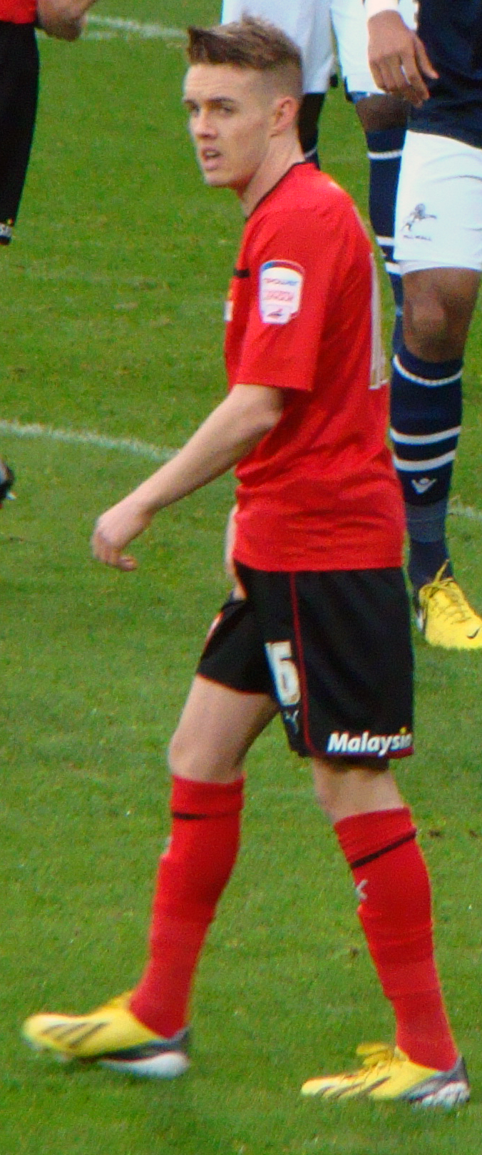 29/12/12 Cardiff v Millwall, Championship, Cardiff City Stadium, Cardiff, Wales